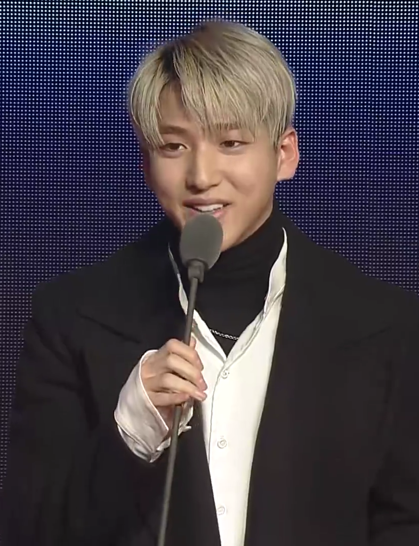 Baro of B1A4 at an event in 2017